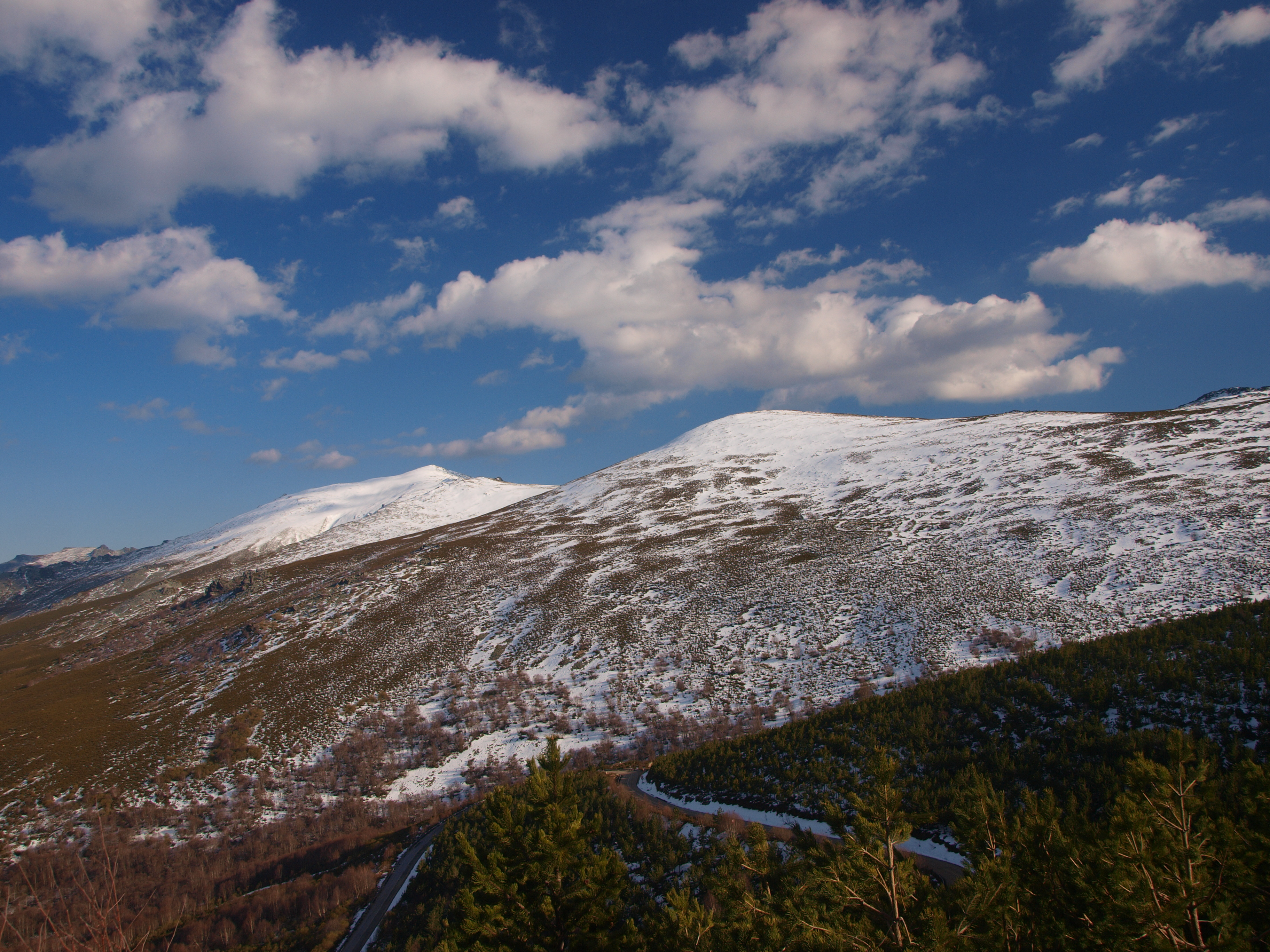 Northern face of the Vizcodillo mountain, between the spanish provinces of León and Zamora